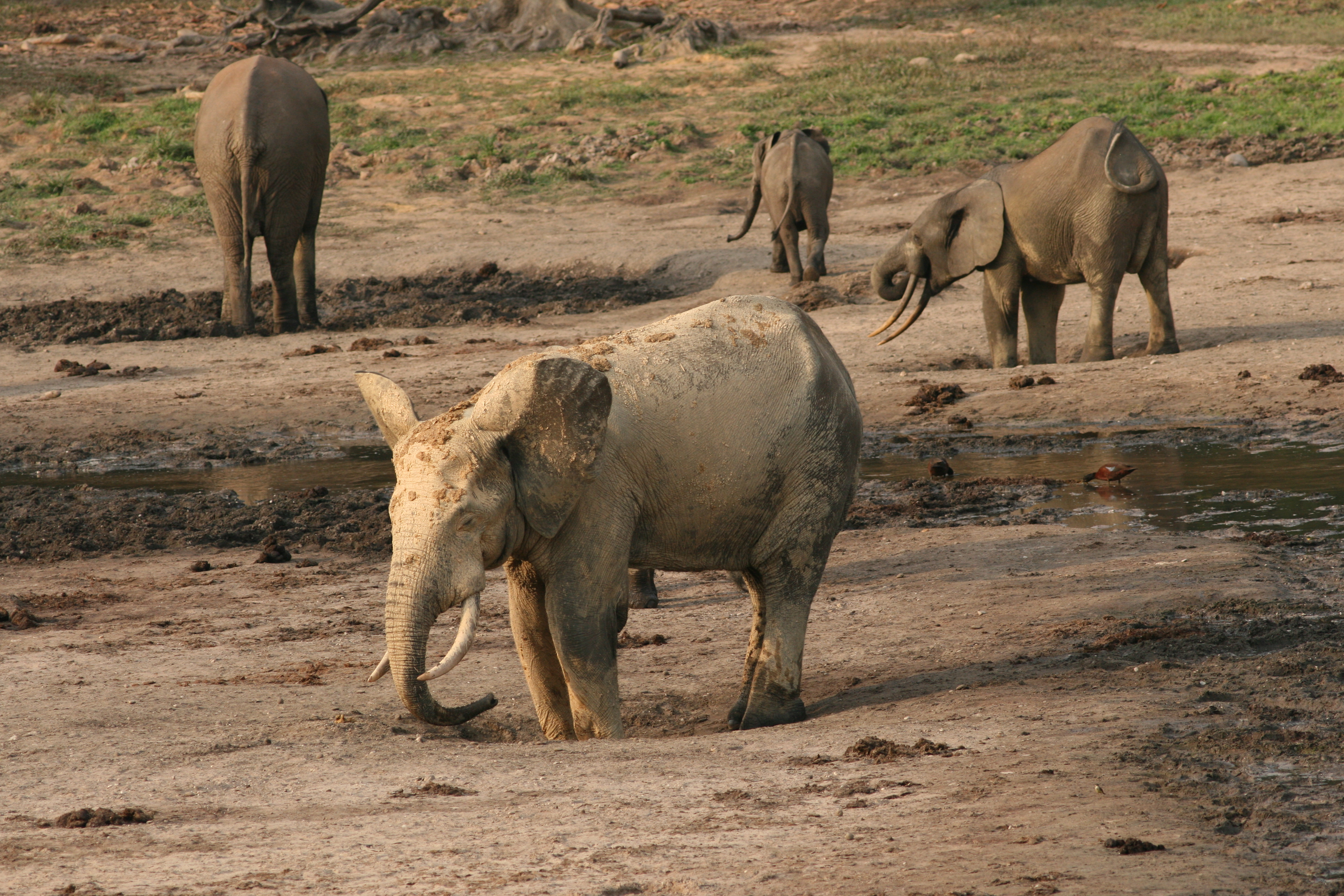 Both sexes in African elephants have ivory tusks. Elephant males have bigger, thicker tusks than females. Credit: Richard Ruggiero/USFWS